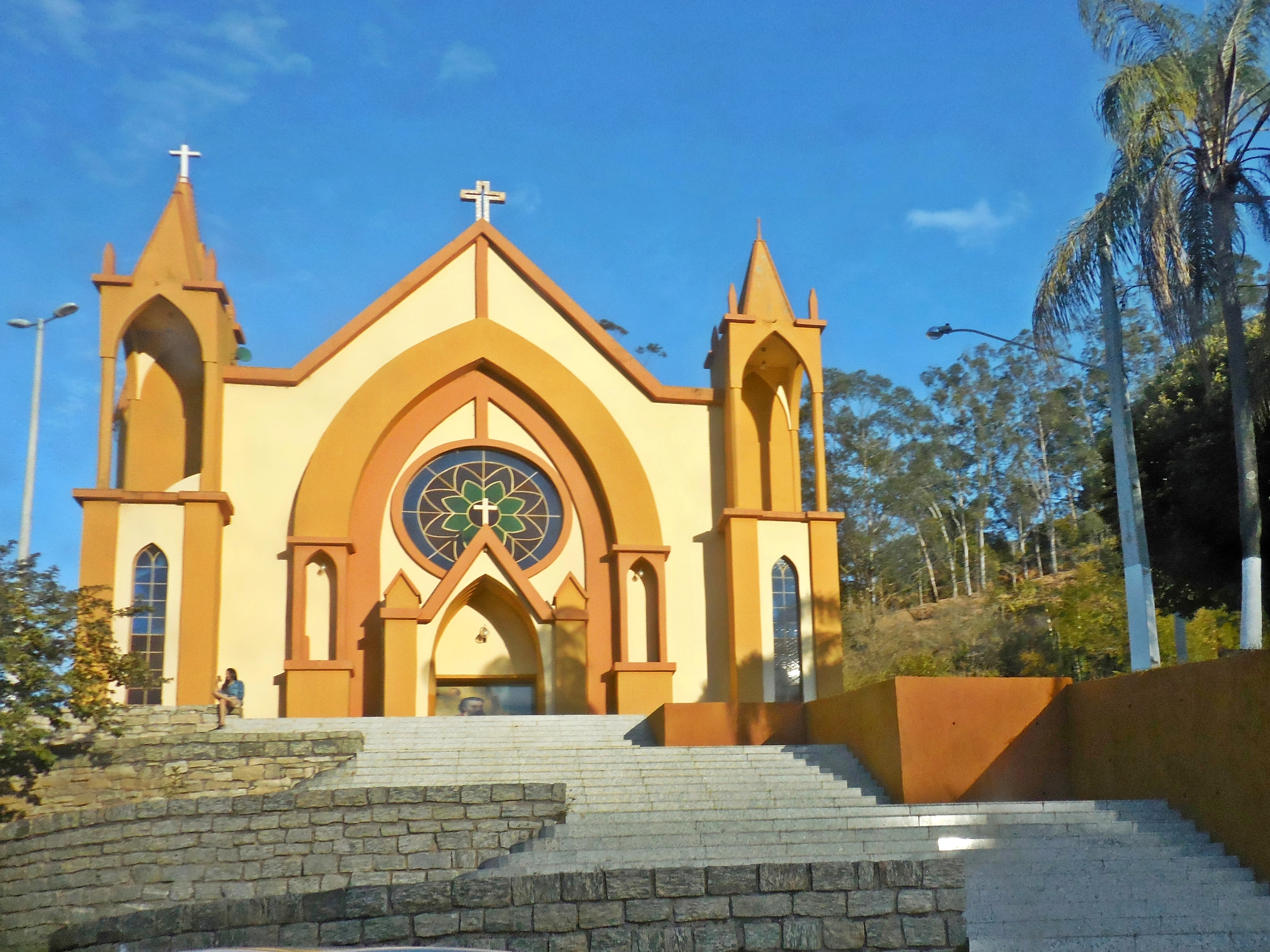 Front of the Saint Joseph Matriz Church, in Jaguaraçu, Minas Gerais, Brazil.